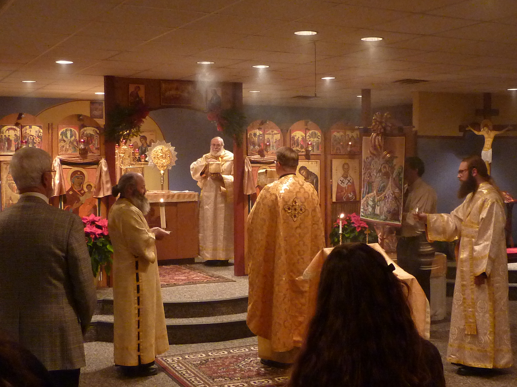 All Saints Orthodox Church, Bloomington, Indiana. Divine Liturgy in progress.